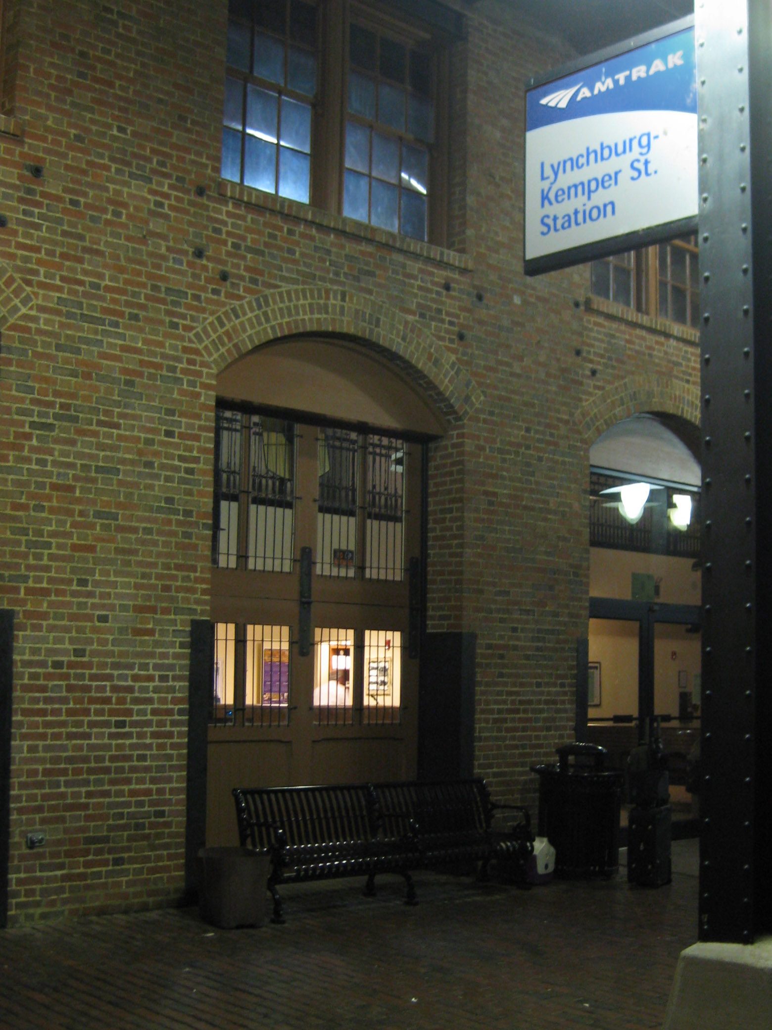 Brick exterior and signage outside the platform level entry to Amtrak's Lynchburg-Kemper Street Station in Virginia.